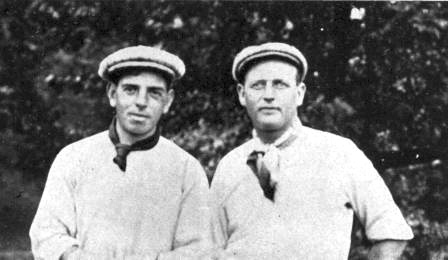 Willie Anderson (left), the U.S. Open champion in 1901, 1903, 1904, and 1905, with Alex Smith, the champion in 1906 and 1910.